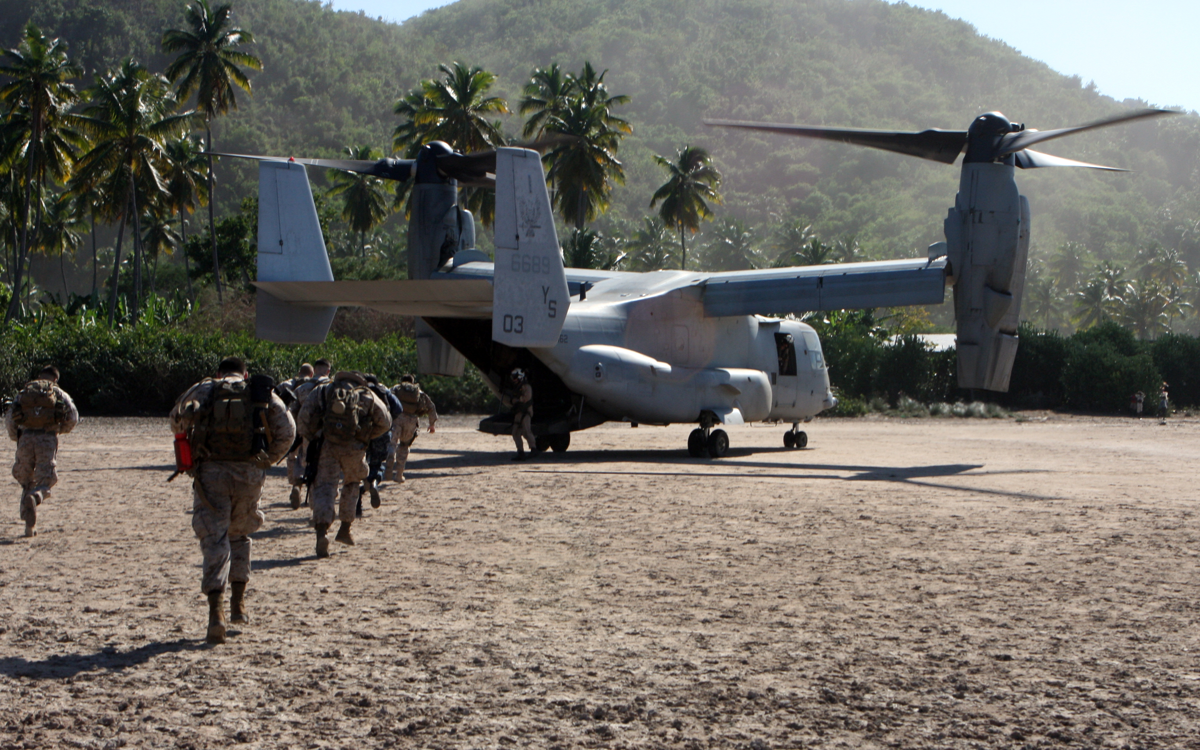 24th Marine Expeditionary Unit Marines and Sailors evaluate the area of Corail, Haiti using assessment teams Jan. 27 to determine the amount of damage caused by Haiti's recent earthquake that occurred Jan. 12. Assessment teams gathered information on the amount of medical, food, and infrastructure repair needed during the MEU's humanitarian assistance mission in Haiti. 24th MEU remains to be among the most flexible and expedient units to support a variety of humanitarian assistance as one of the Marine Corps' rapid response force. (U.S. Marine Corps photo by Sgt. Alex C. Sauceda)